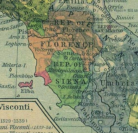 Map of the Republic of Siena (Italy) in 1494.